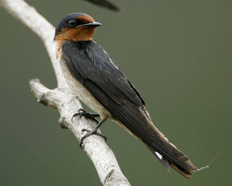 060528 Pacific swallow SIM.jpg